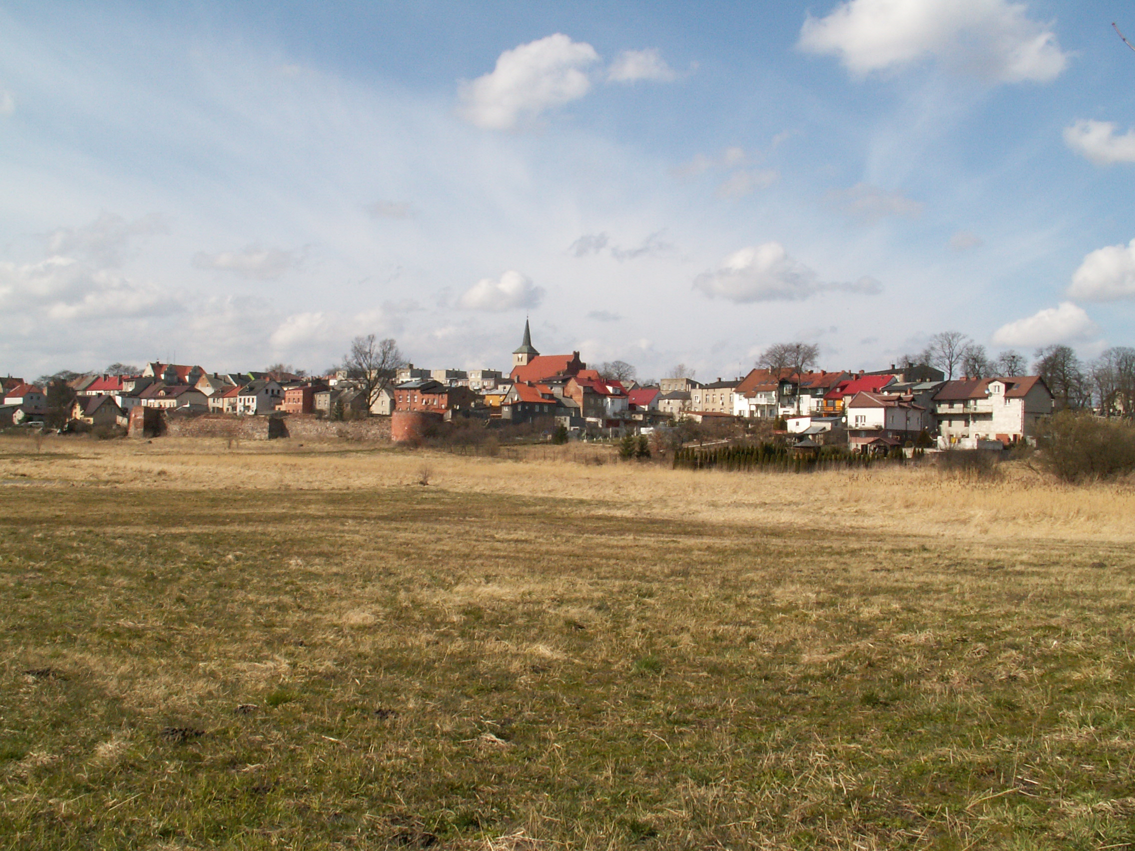 Skarszewy